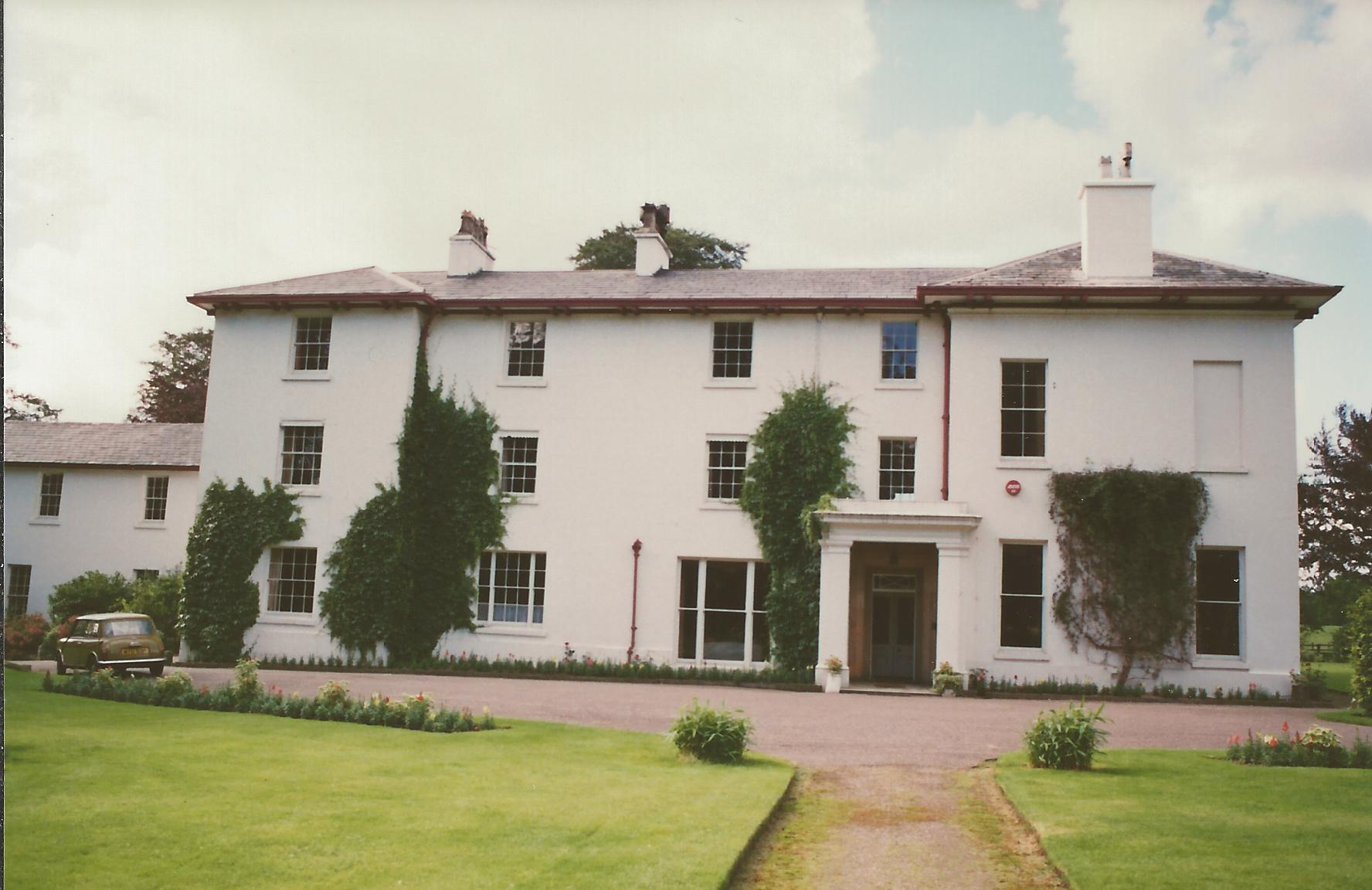 This picture was taken in 1984.